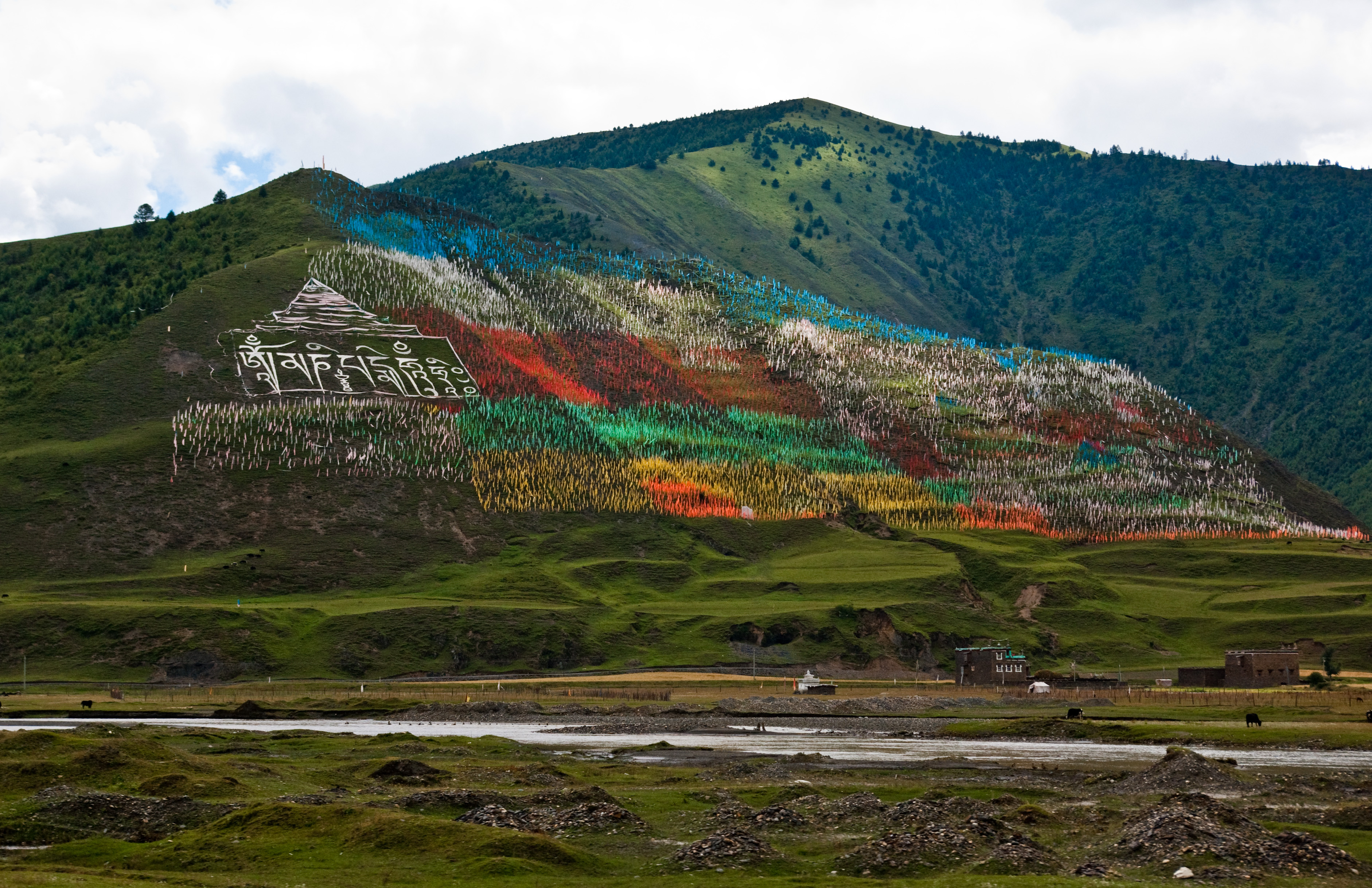 Prayer flags near Tagong and Om mani padme hum